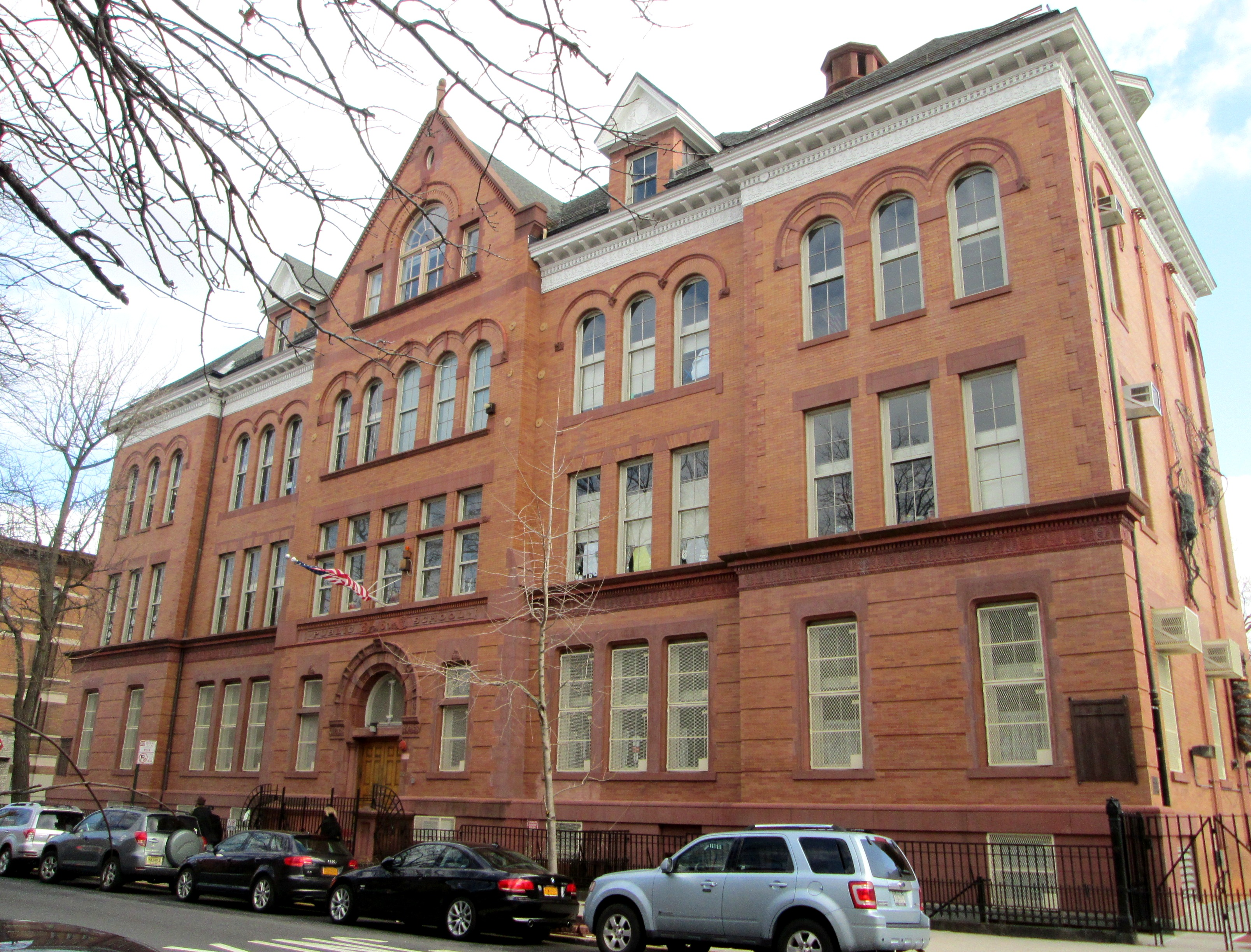 P.S. 107, the John W. Kimball School, at 1301 Eighth Avenue between 13th and 14th Streets in the South Slope neighborhood of Brooklyn, New York City, was built in 1894 and was designed in the late Romanesque Revival style by J. M. Naughton. (Sources: AIA Guide to NYC (5th ed.) and "Park Slope Historic District Designation Report")